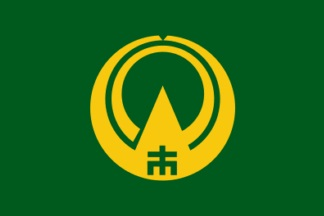 Flag of Kamiichi Toyama